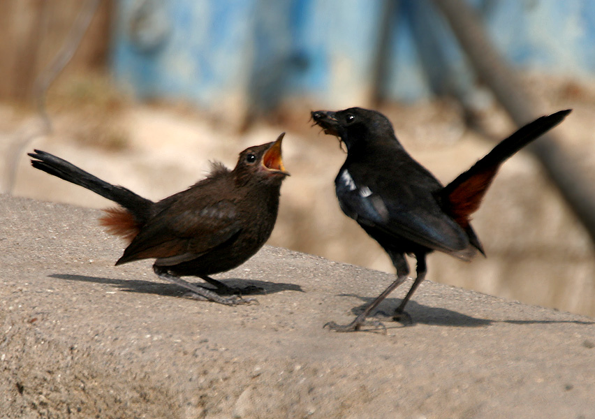 Indian Robin Saxicoloides fulicatus in Parli, Maharashtra, India.